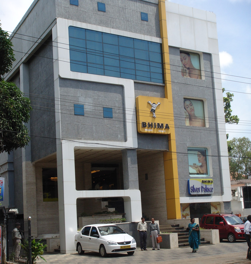 Bhima Showroom